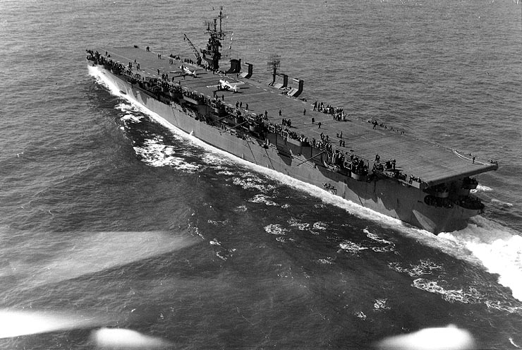 The U.S. Navy light aircraft carrier USS Langley (CVL-27) underway off Cape Henry, Virginia (USA), with two North American SNJ Texan training planes on her flight deck, 6 October 1943.